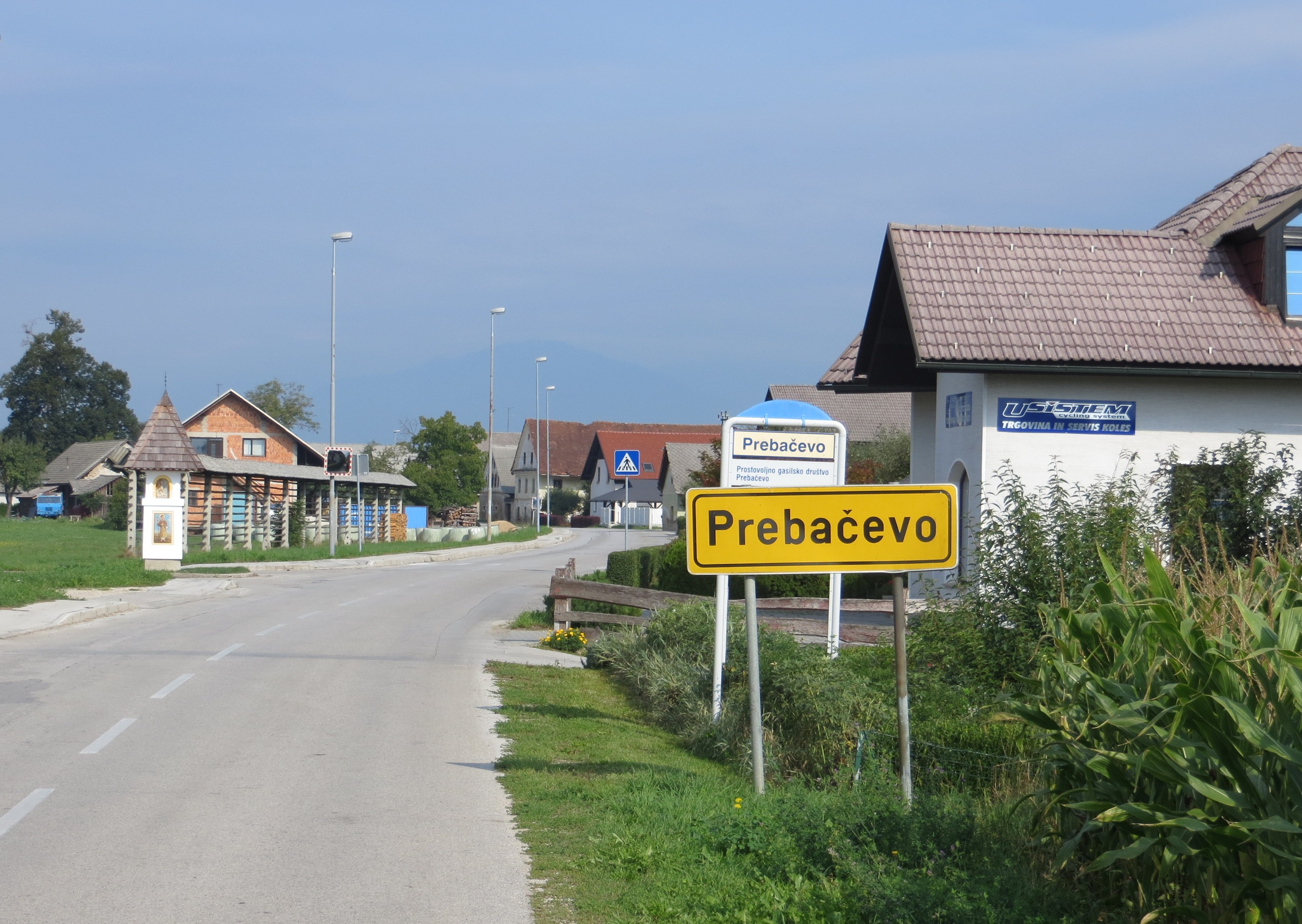 Prebačevo, Municipality of Šenčur, Slovenia